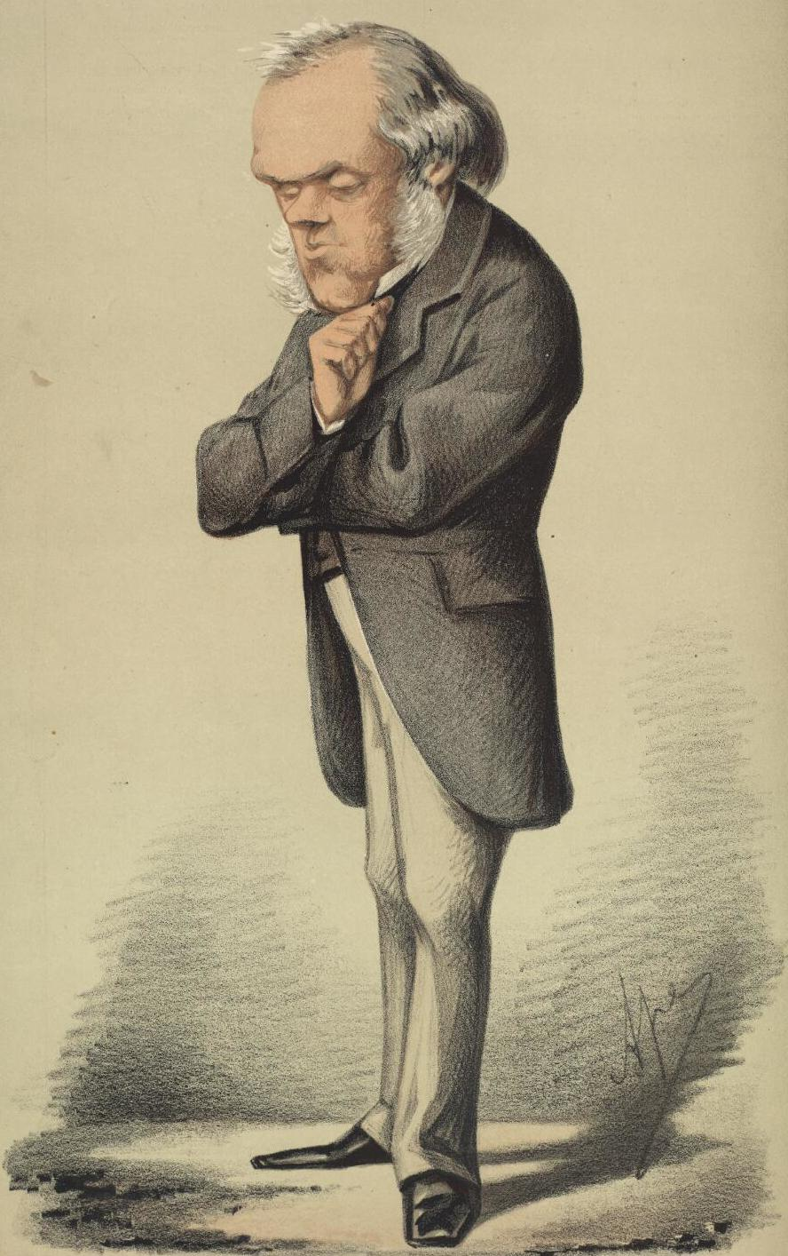 A portrait from the Welsh Portrait Collection at the National Library of Wales. Depicted person: Henry Bruce, 1st Baron Aberdare – British politician